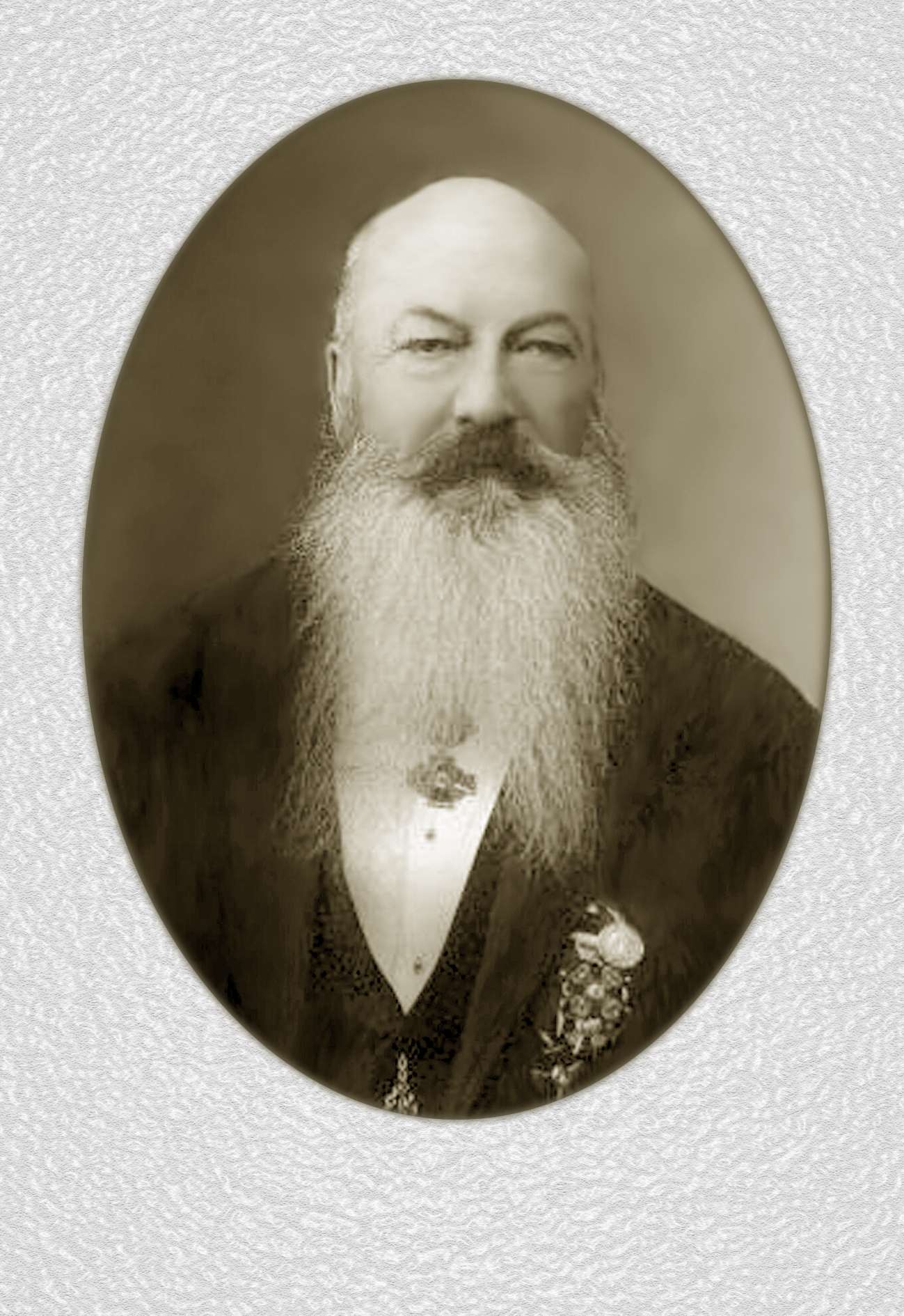 Arnold Körber